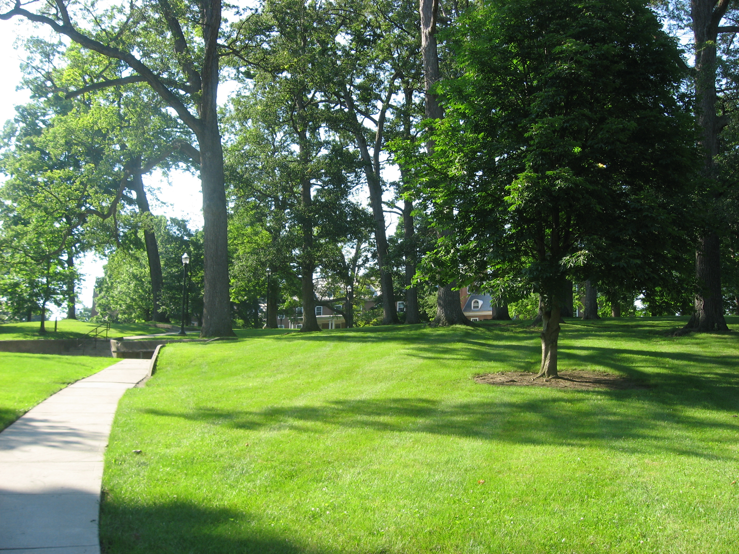 Overview from the south of the Monnett Gardens on the campus of Ohio Wesleyan University in Delaware, Ohio, United States. The gardens occupy the site of Monnett Hall, which was once listed on the National Register of Historic Places before its destruction.